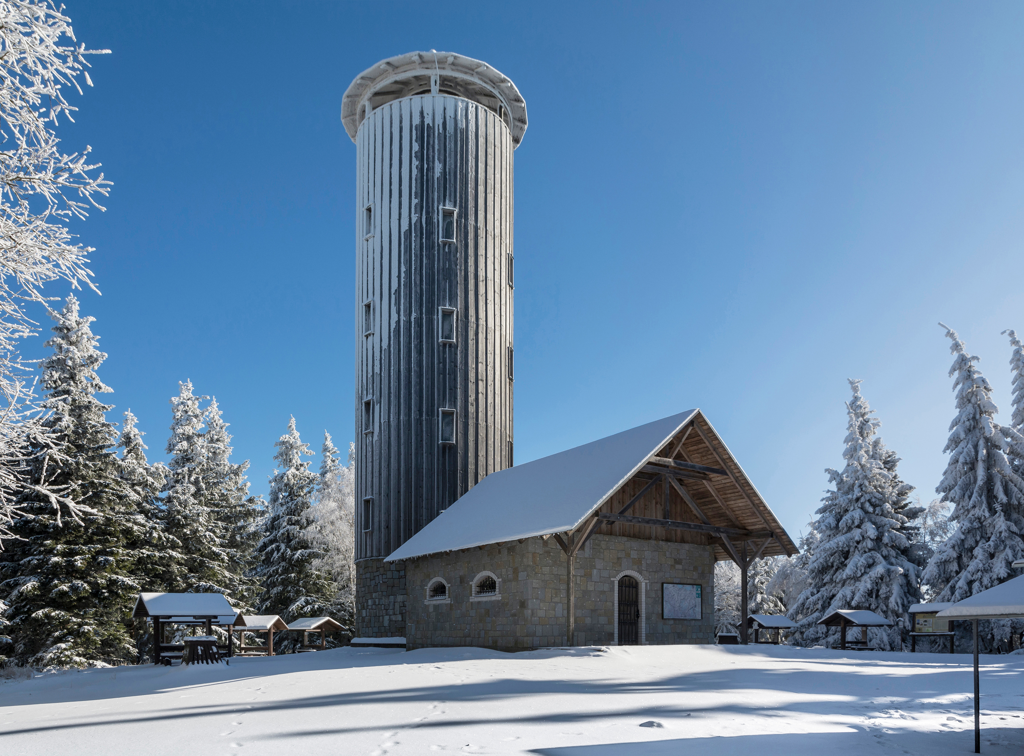 Lookout tower on Borůvková hora (Borówkowa), exposure from NW